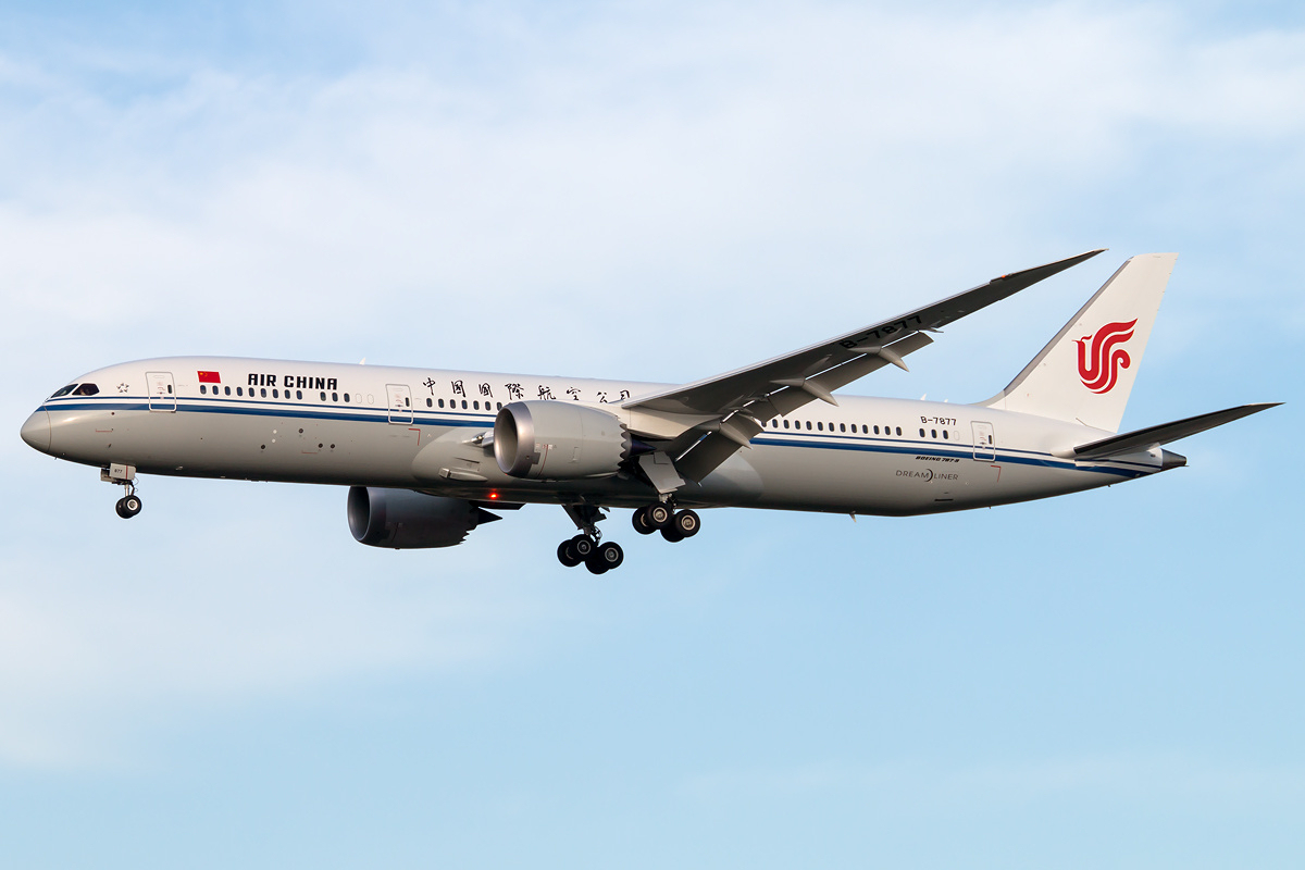 Air China Boeing 787-9 on finals at Beijing Capital Airport